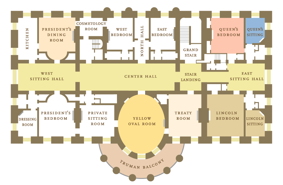 Floor plan of White House Second floor, which features the Center Hall, East Sitting Hall, Lincoln Bedroom, Lincoln Sitting Room, President's Dining Room, Queens' Bedroom, Queens' Sitting Room, Treaty Room, Truman Balcony, West Sitting Hall, and Yellow Oval Room